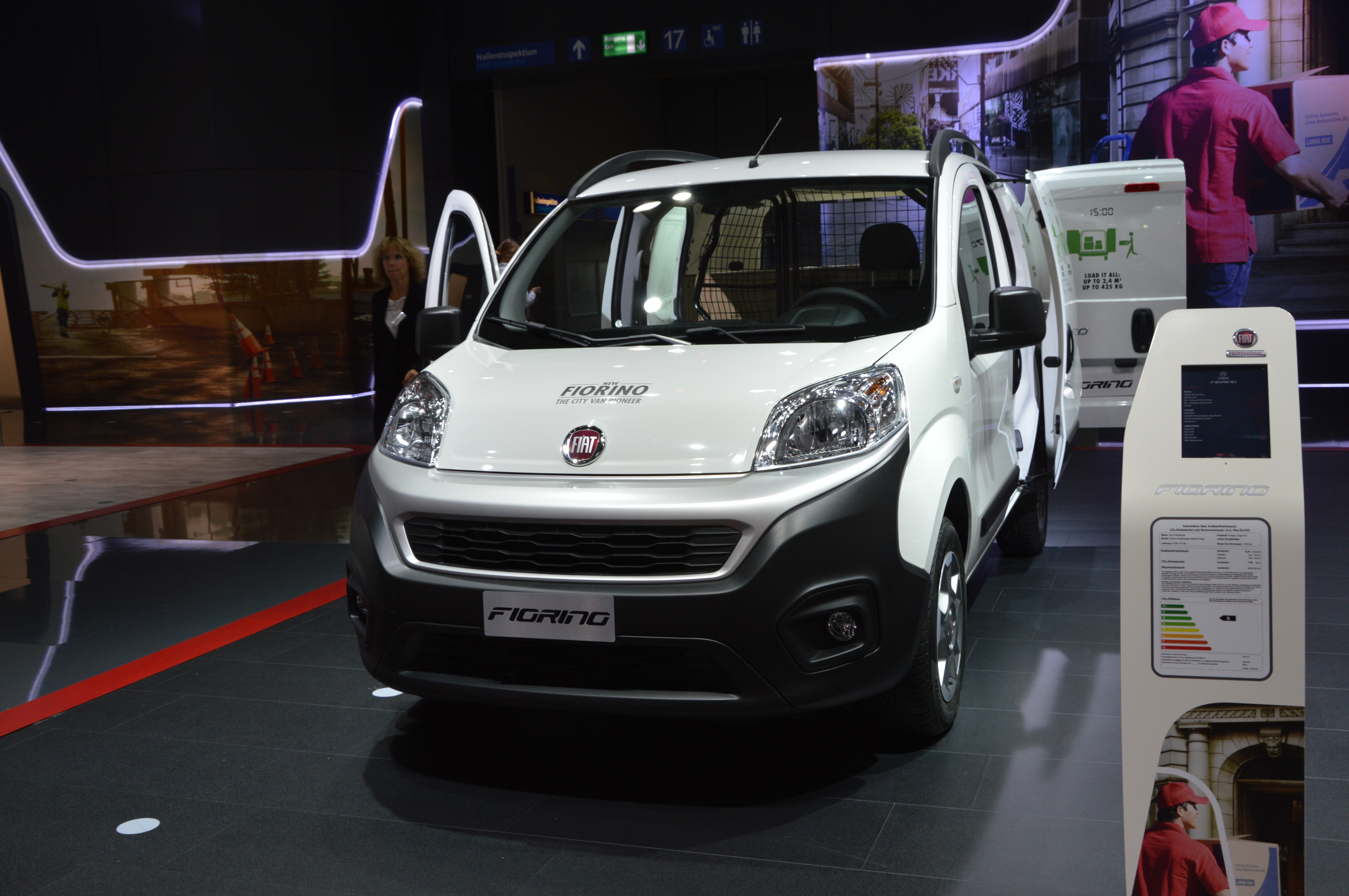 Fiat Fiorino (Modell 2016) Kastenwagen. Photo taken at IAA 2016.